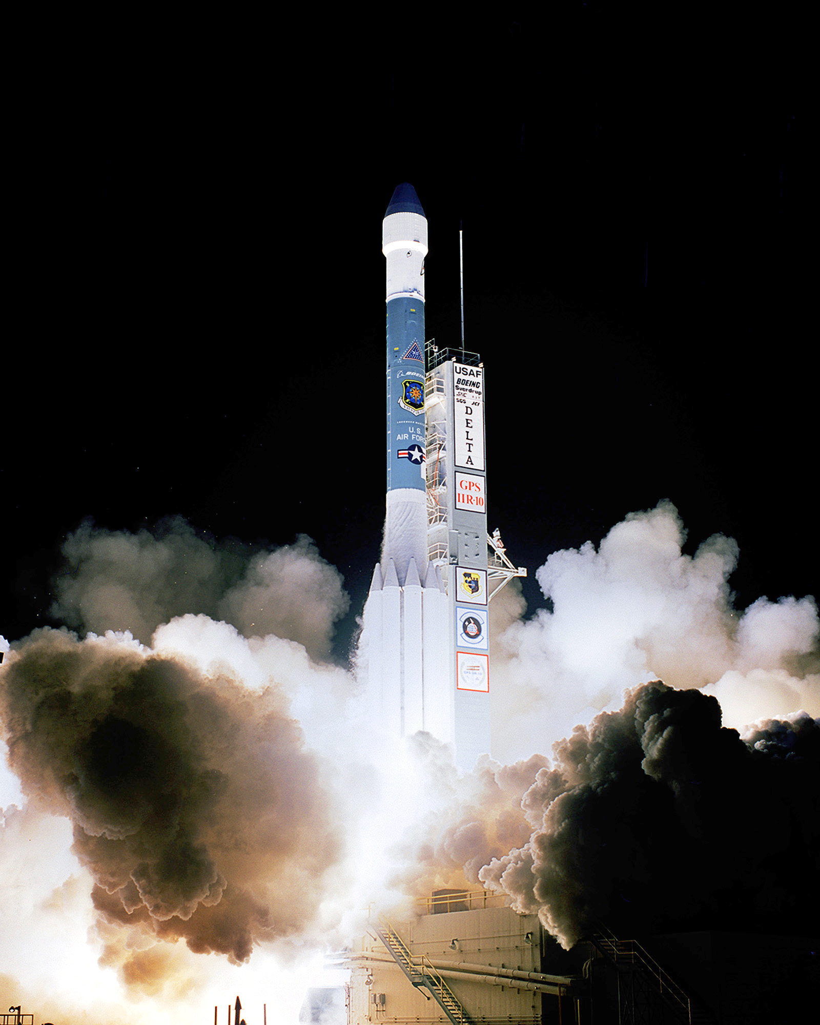 Delta 302, a Delta II 7925-9.5 rocket, launches from here Dec. 21, 2003. It is carrying a Global Positioning System satellite, GPS IIR-10, that helps warfighters with strategic battlefield information.